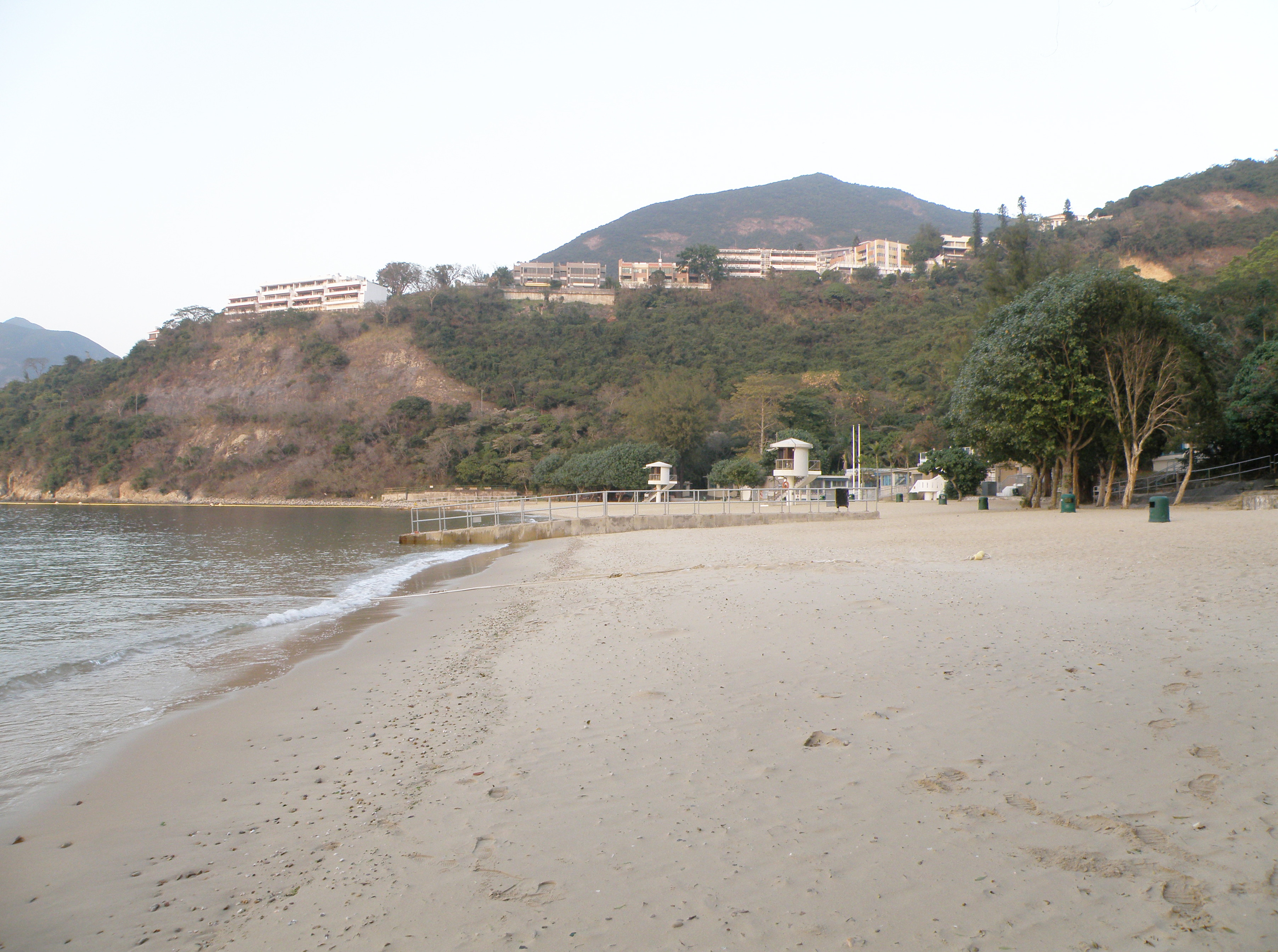 South Bay Beach in Southern District, Hong Kong.